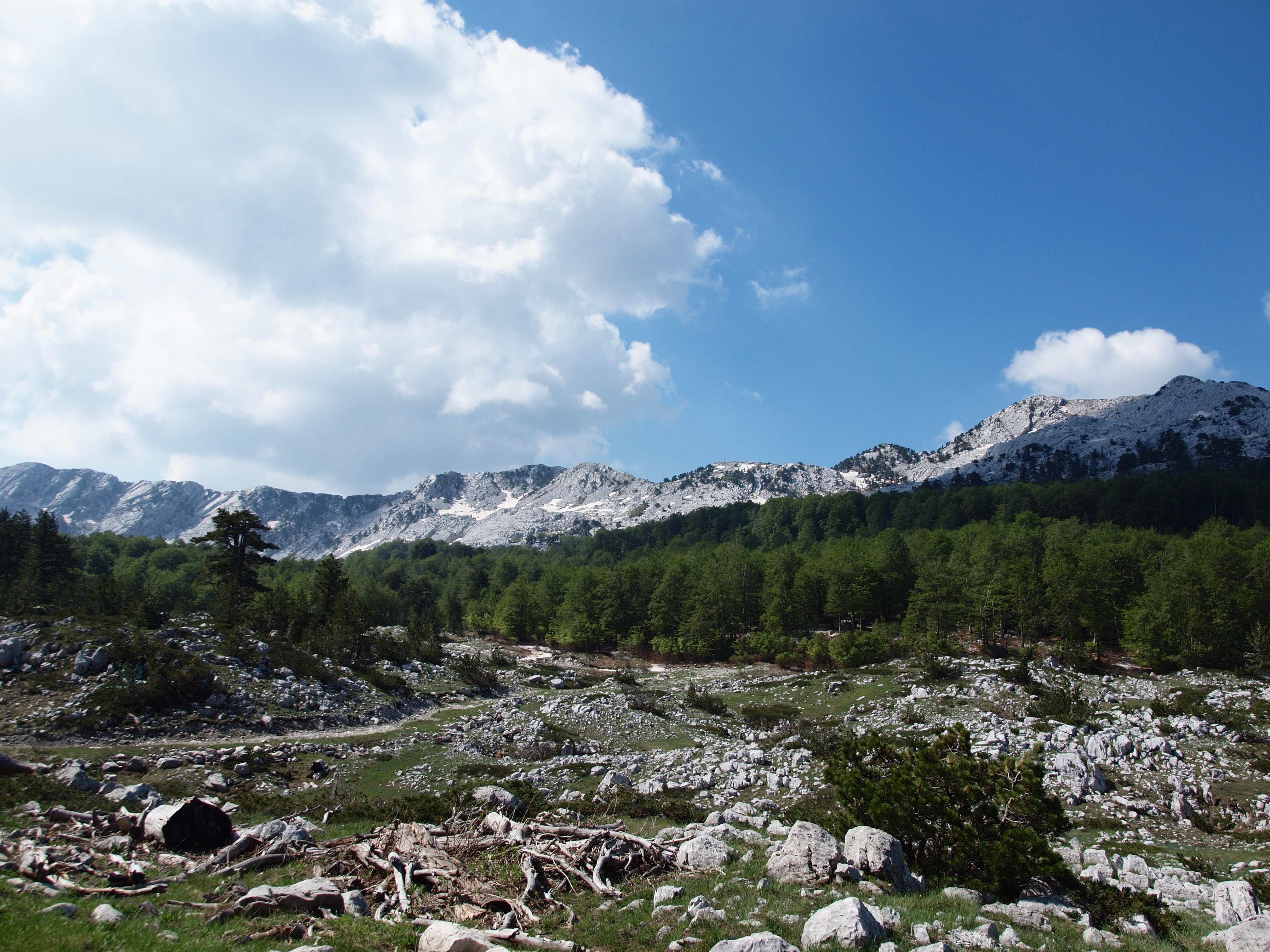 Kesli katuni Bijela gora Montenegro